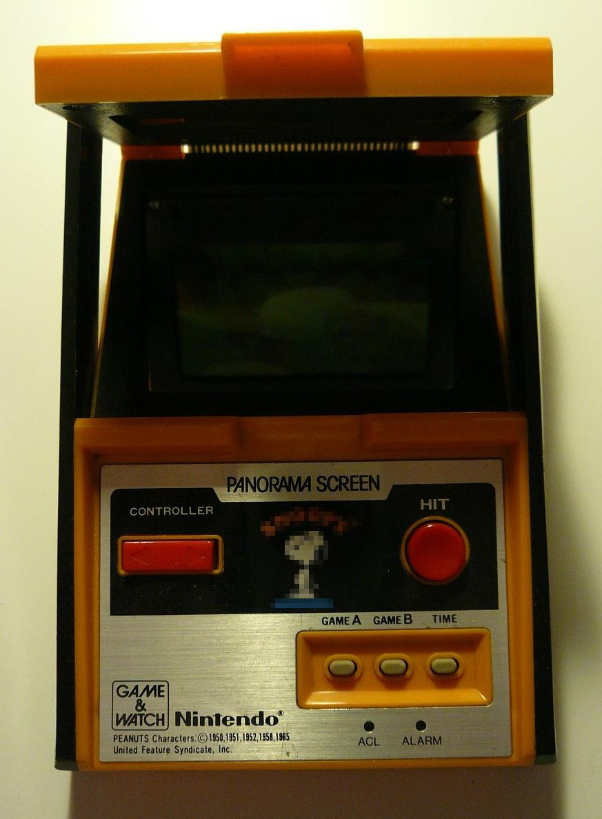 Snoopy (Panorama) - Game&Watch - Nintendo